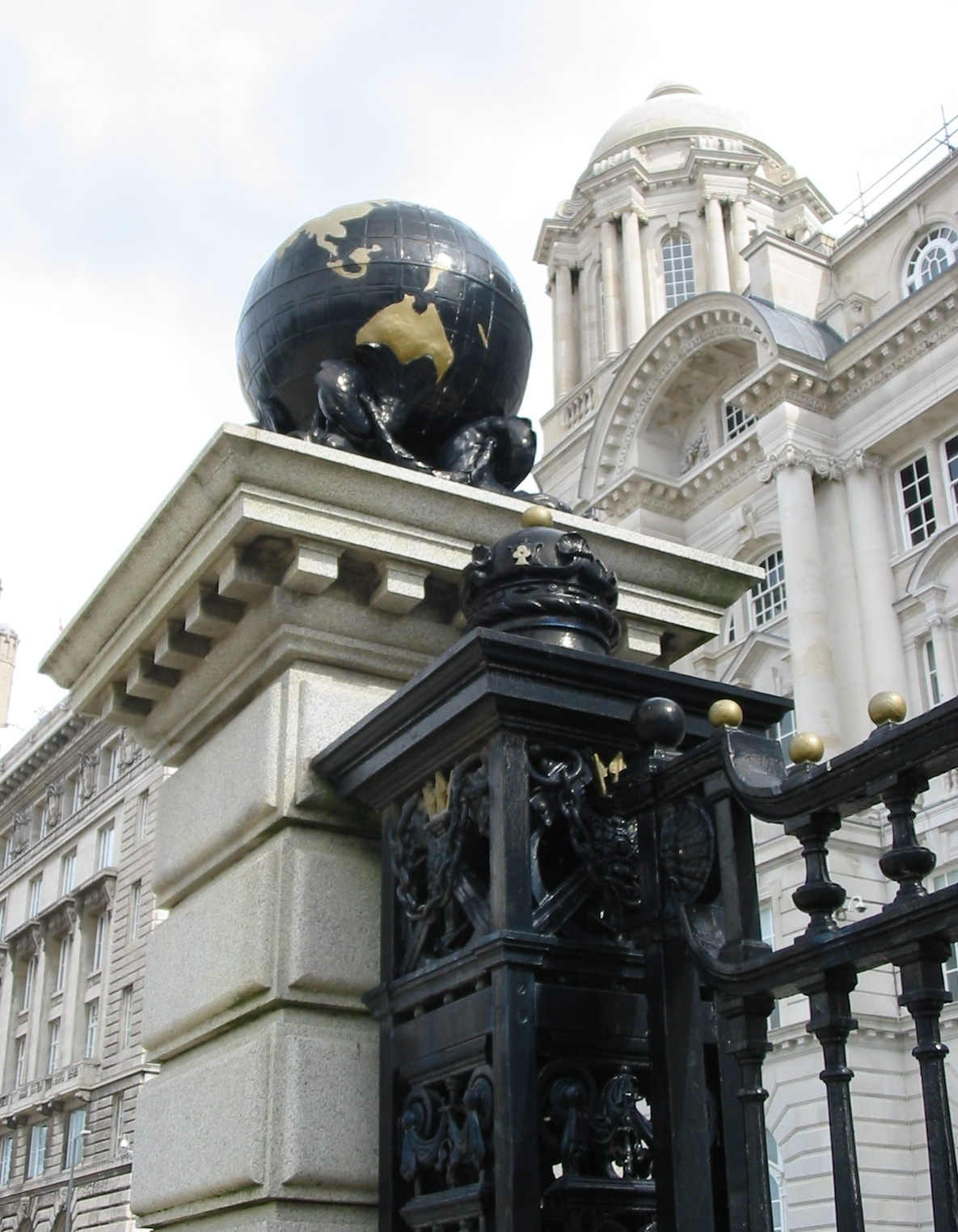 Nrf: Liverpool